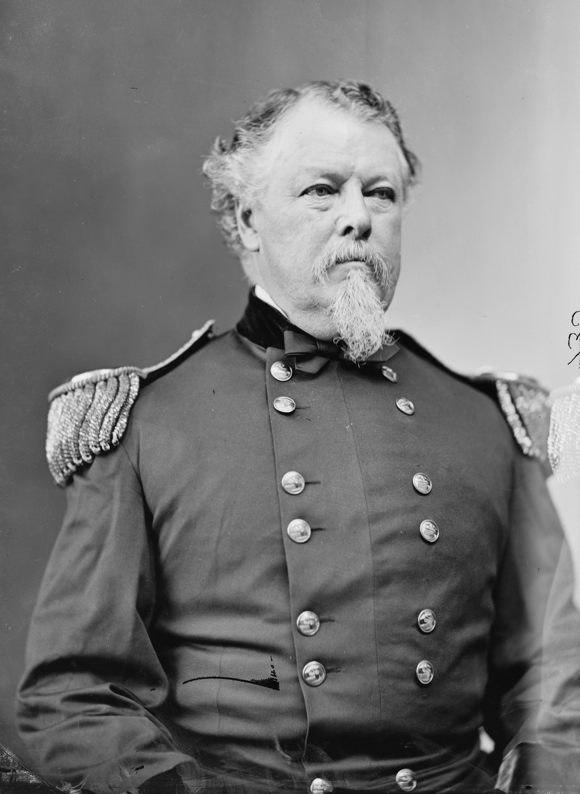 Horatio Wright. Library of Congress description: "Gen. Horatio G. Wright, U.S.A."